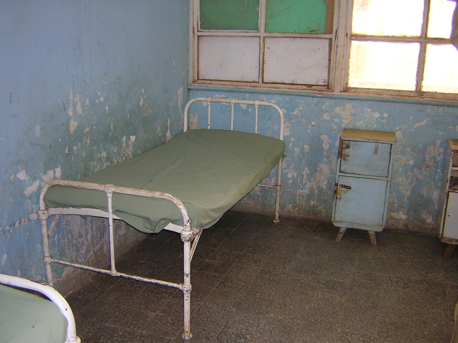 Surgical sickroom in the Soba University Hospital, Khartoum, Sudan.